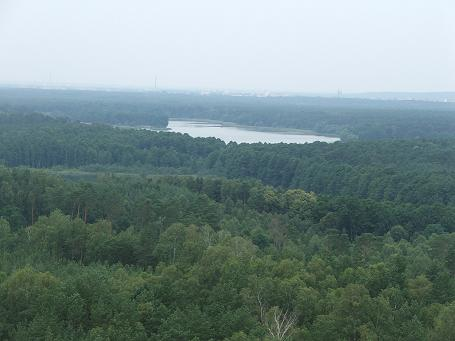 Wikaryjskie Lake by Włocławek, Poland